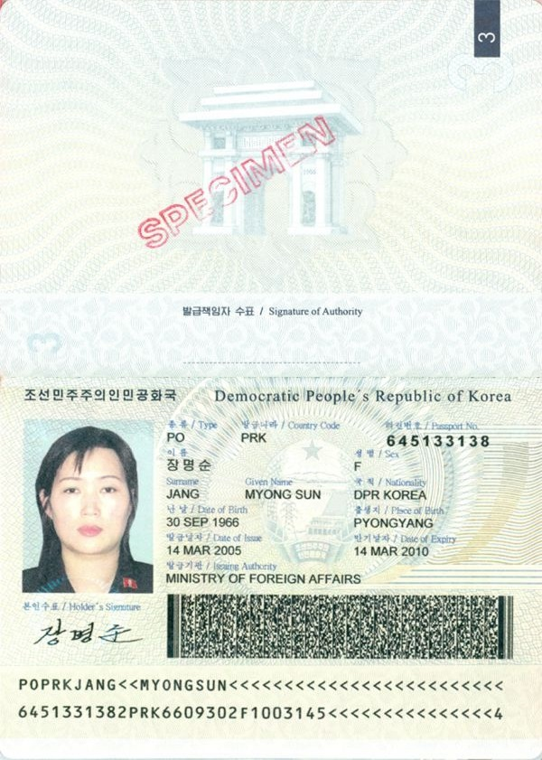 Personal Info Page of the DPRK Passport for Official Trip（2000 Version）